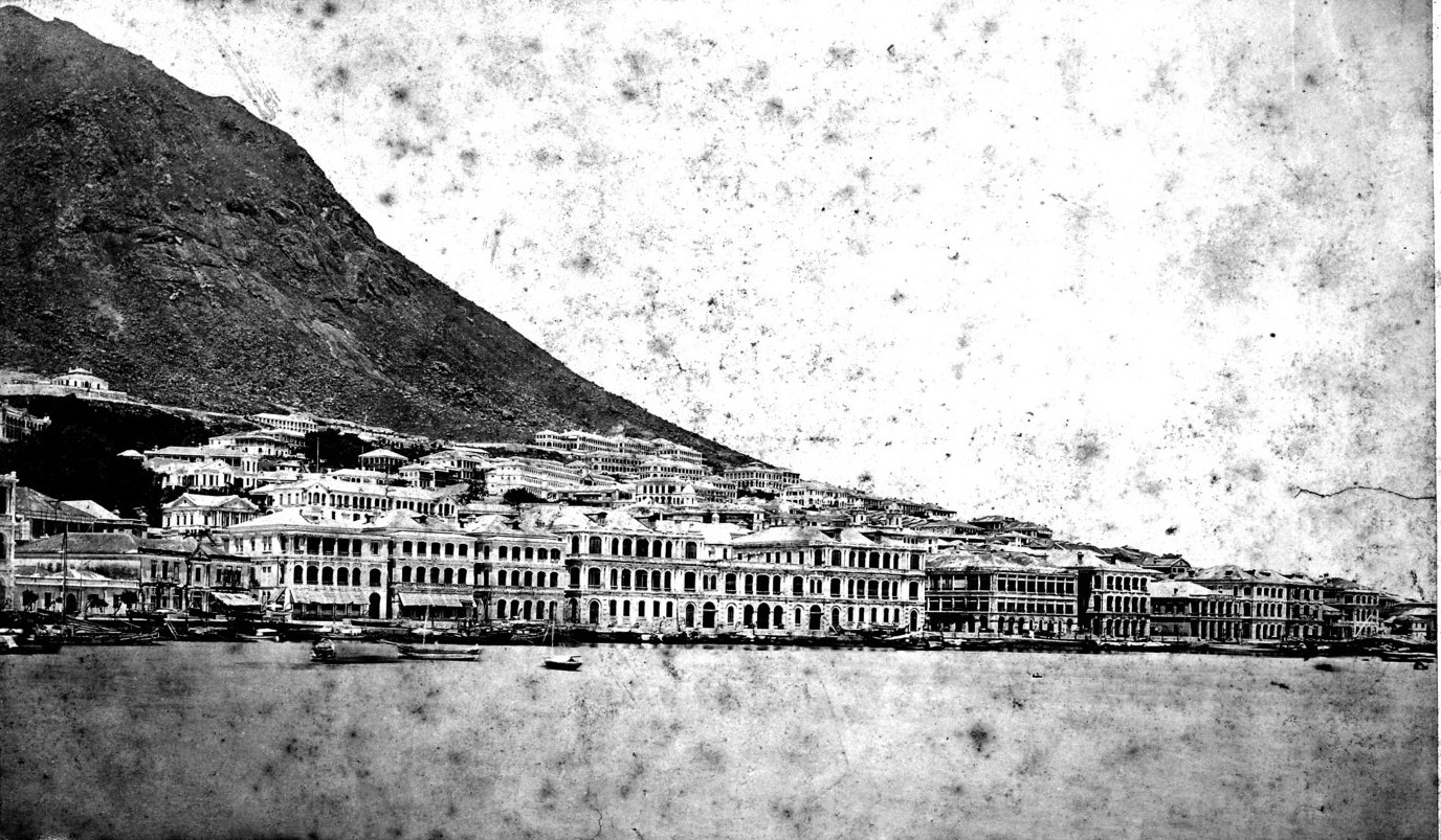 photo from Photographic Views of Canton